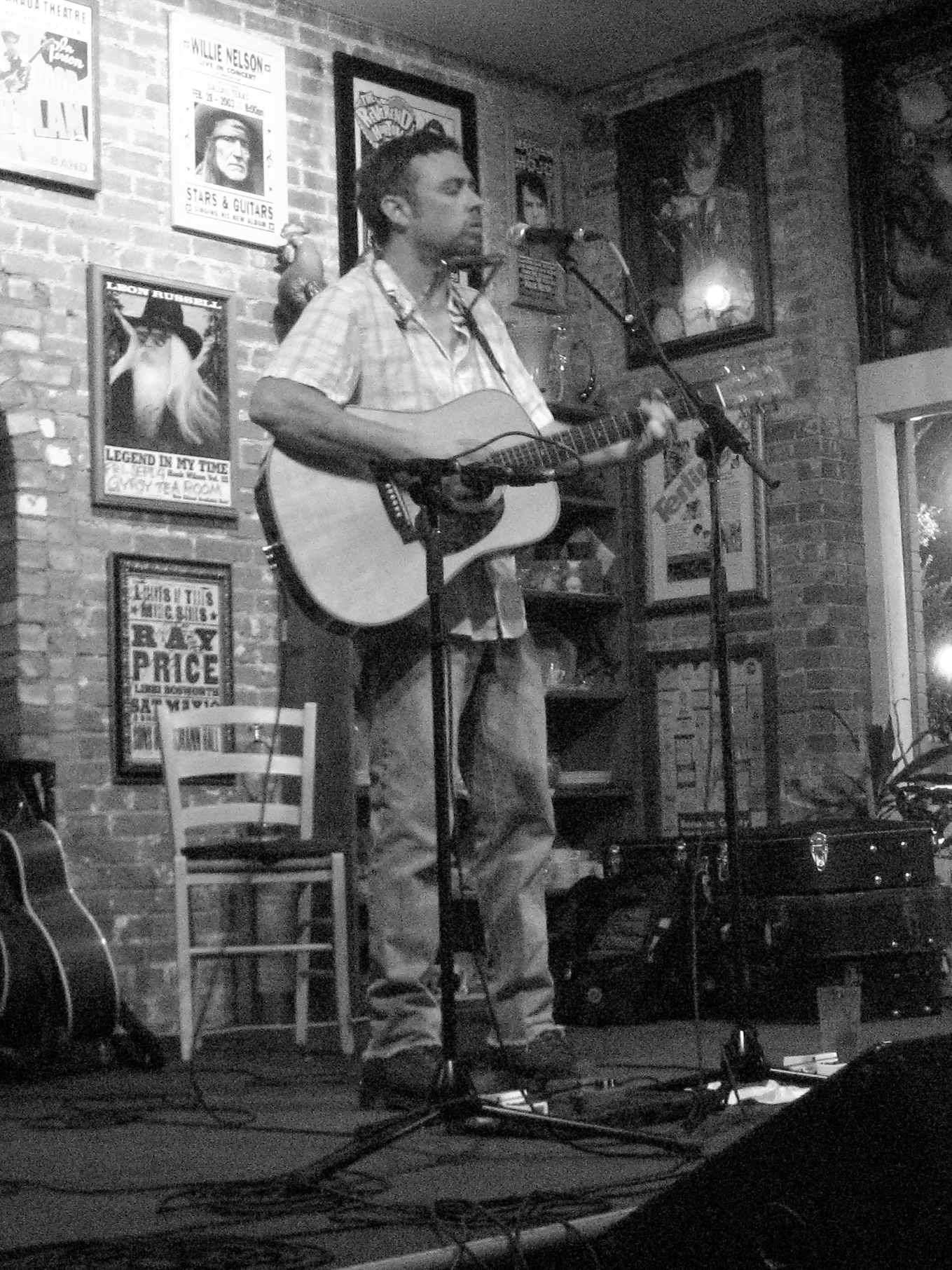 Scott Miller performs at AllGood Cafe in Dallas, TX on June 26, 2009.